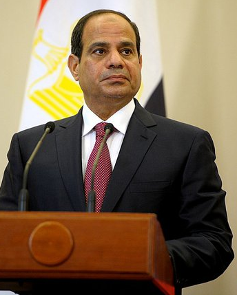 Abdel Fattah el-Sisi, current President of Egypt